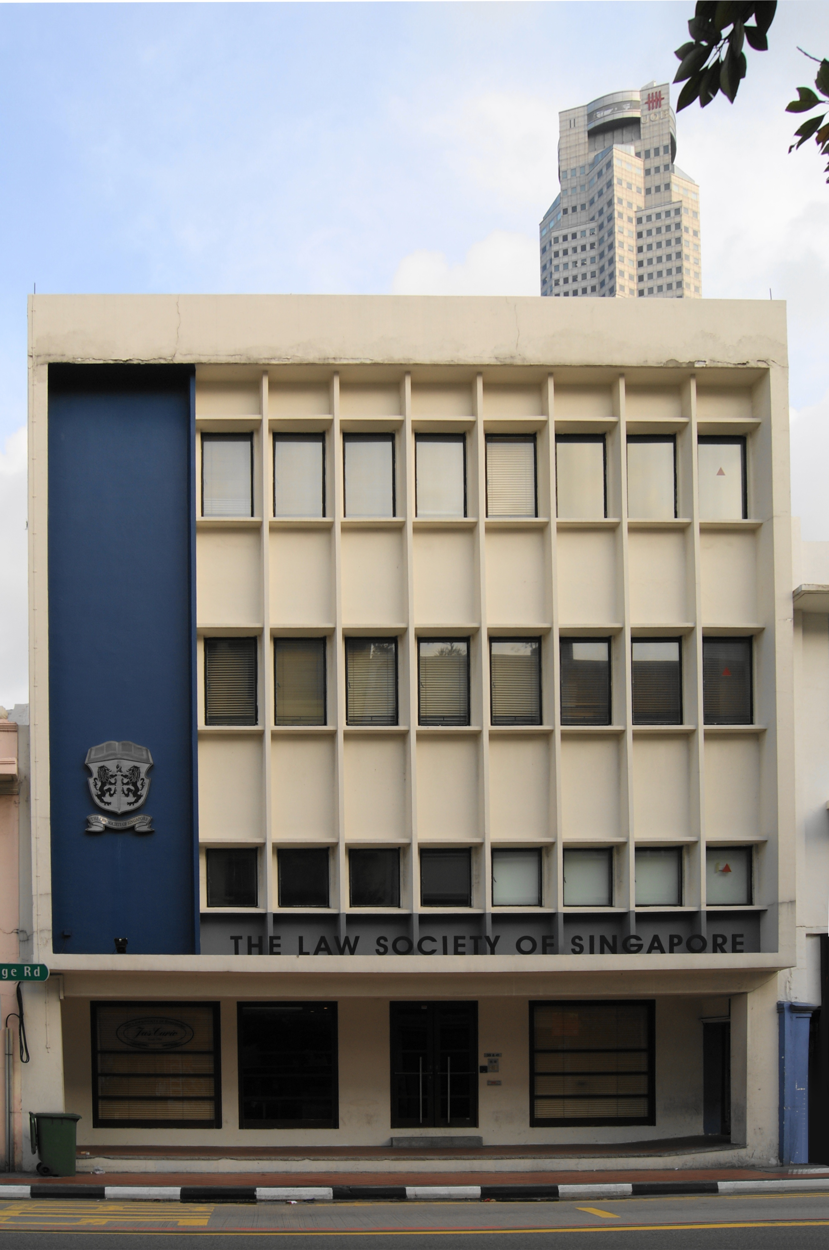 The headquarters of the Law Society of Singapore at 39 South Bridge Road, Singapore 058673.